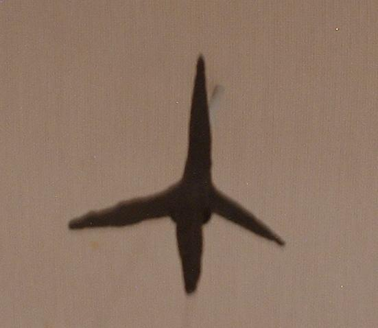 Catrop, European, Late Medieval. On display at the Royal Armouries, Leeds. Photographed by Gaius Cornelius on 08-Jun-06.